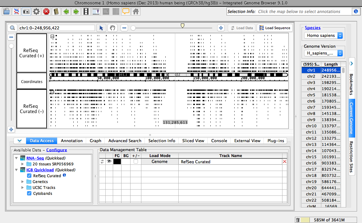 Integrated Genome Browser version 9.1.0 showing a zoomed-out view of reference gene annotations and a graphical representation of human chromosome one, with karyotype bands. Folders and files in the lower left contain publicly available data sets that users can load and explore. These data include RNA-Seq gene expression data from 20 human organ and tissue types, including liver, adult brain, fetal brain, heart, kidney, and others. Loading this data into the Integrated Genome Browser visualization environment helps scientists and laypeople better understand how genes contribute to form and function in the human body.